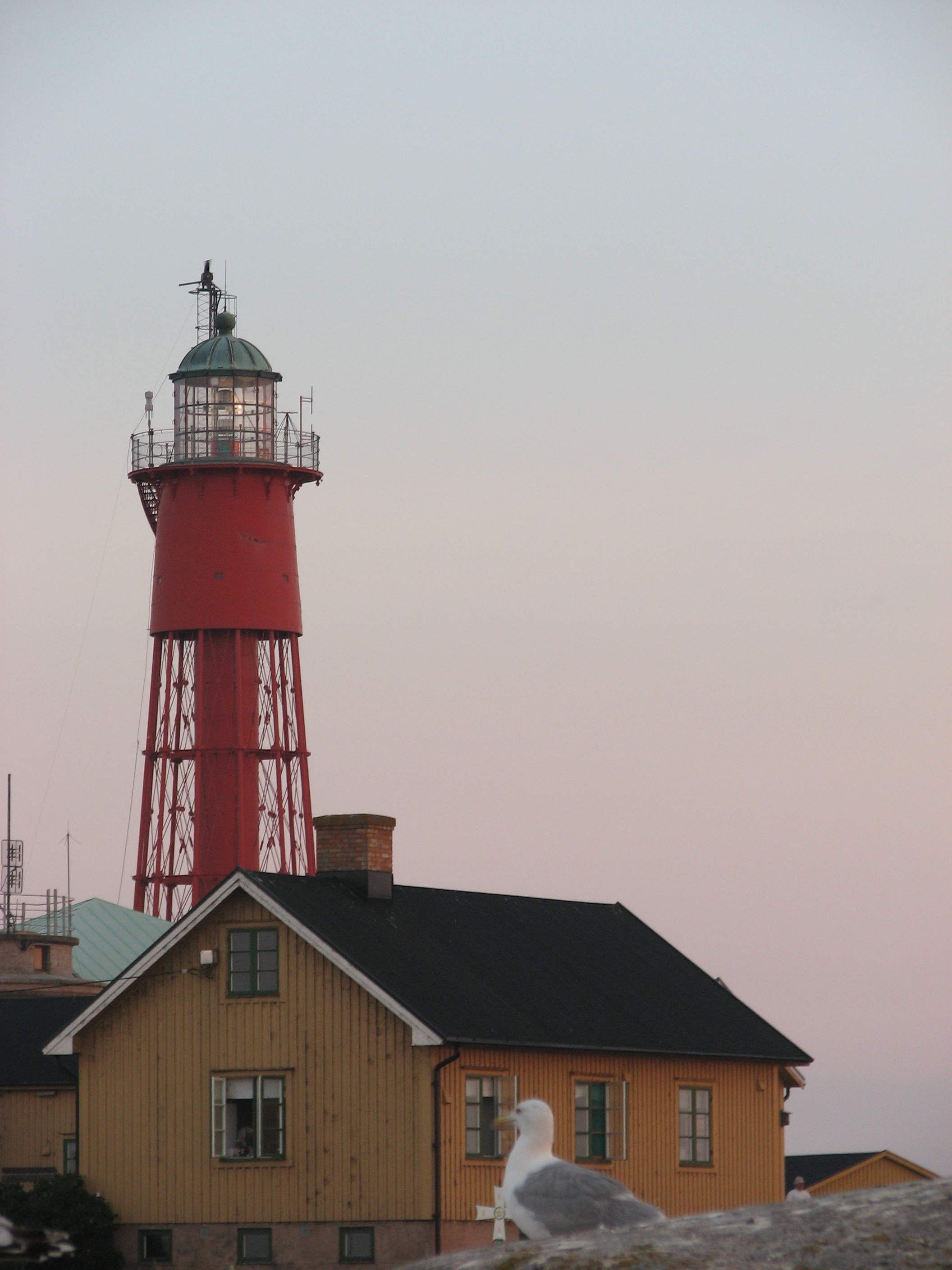 The lighthouse on the island Utklippan in Swedens southern archipelago.